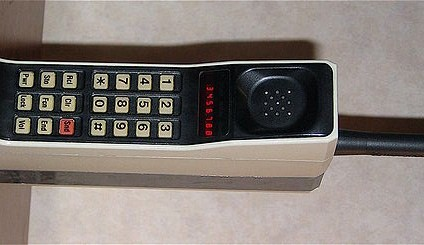 A Motorola DynaTAC 8000X from 1984. This phone has a primitive red LED display.